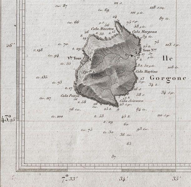 A beautiful French nautical chart or map issued in 1852 by the Depot de la Marine. Offers sumptuous detail both inland at sea. Offers countess depth soundings as well as notes on undersea features such as banks and shoals. Equally impressive detail inland with beautifully engraved topography and detailed island strukture of individual roads and buildings. The island of Gorgona (Gorgone) as a cutout. Issued by Theodore Ducos for the Depot-general de la Marine in 1852.